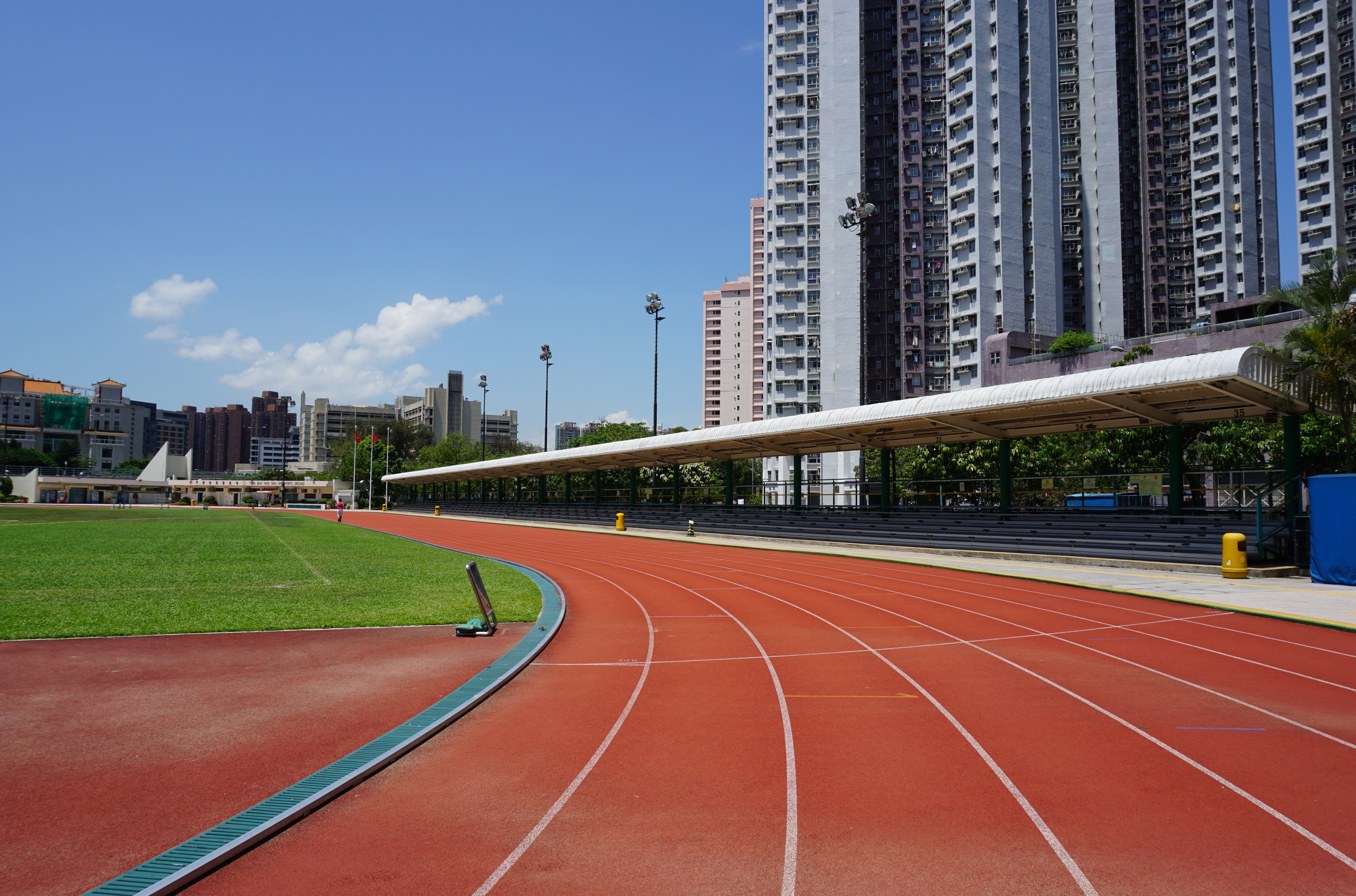 Tang Shiu Kin Sports Ground in Tuen Mun, Hong Kong.